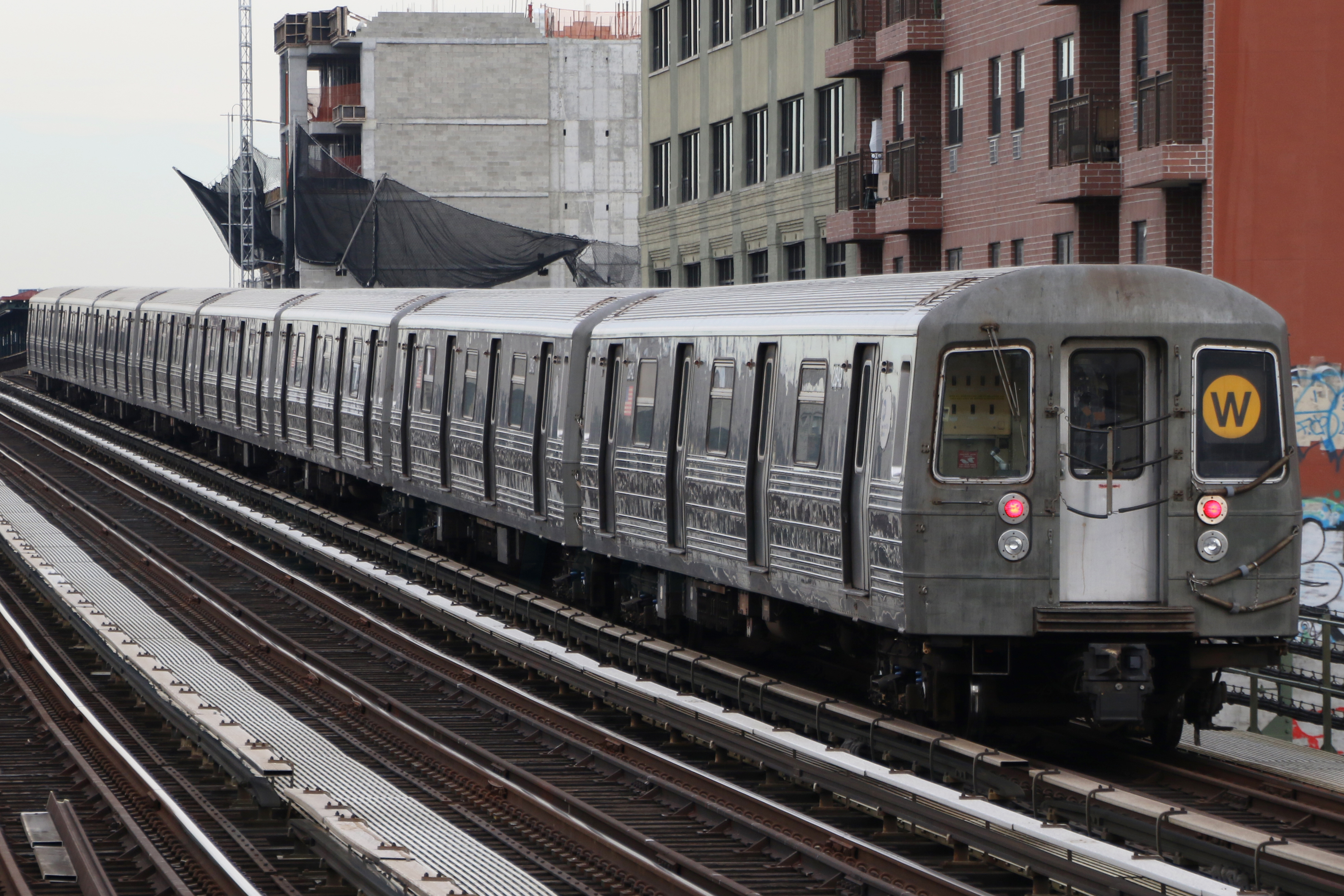 Astoria-bound MTA NYC Subway W train of Westinghouse/ANF R68 cars leaving 39th Ave.